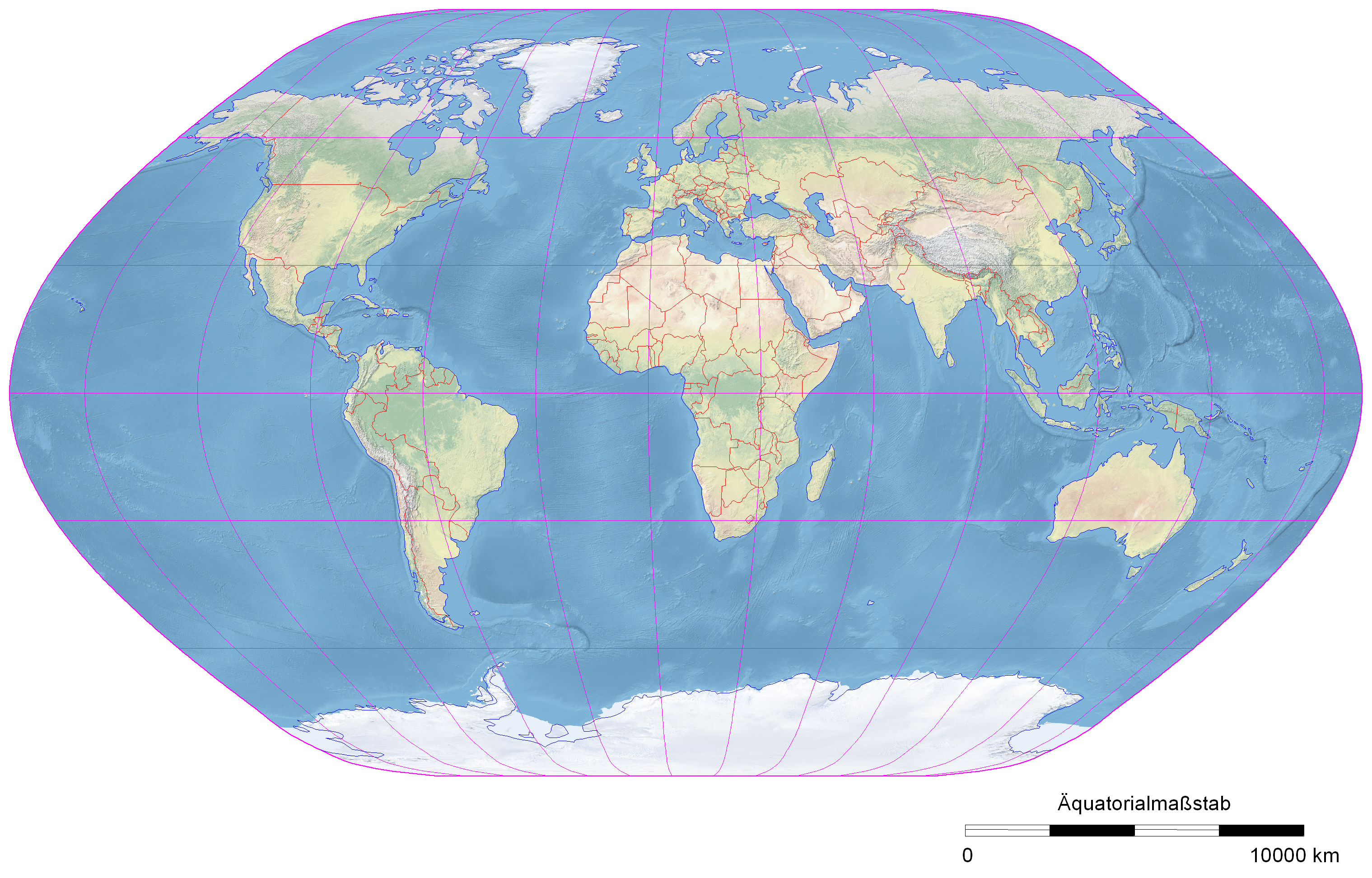 World map made using natural earth data (Projection: Hölzels Planisphere center 10° east)